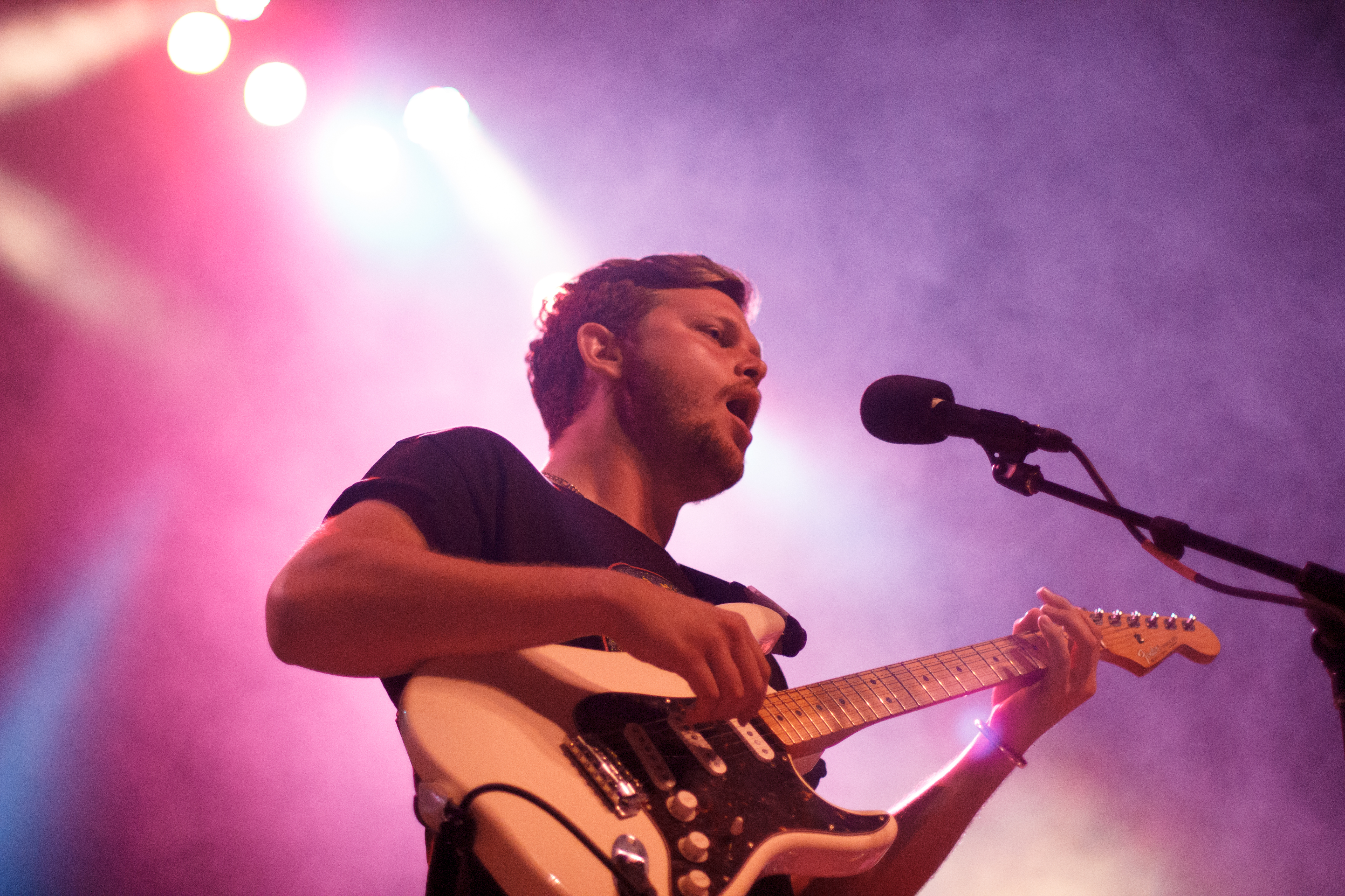 Alt-J member Joe Newman